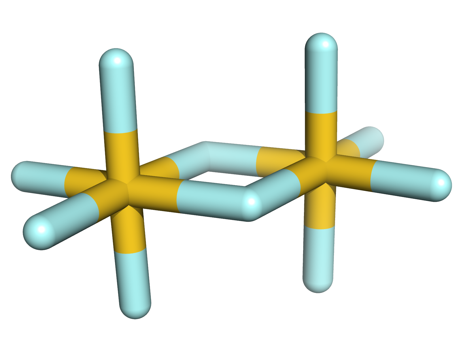 structure of gold pentafluoride (gold(V) fluoride), based on data from In-Chul Hwang, Konrad Seppelt. Gold Pentafluoride: Structure and Fluoride Ion Affinity. Angewandte Chemie International Edition 2001, 40, 3690-3693.